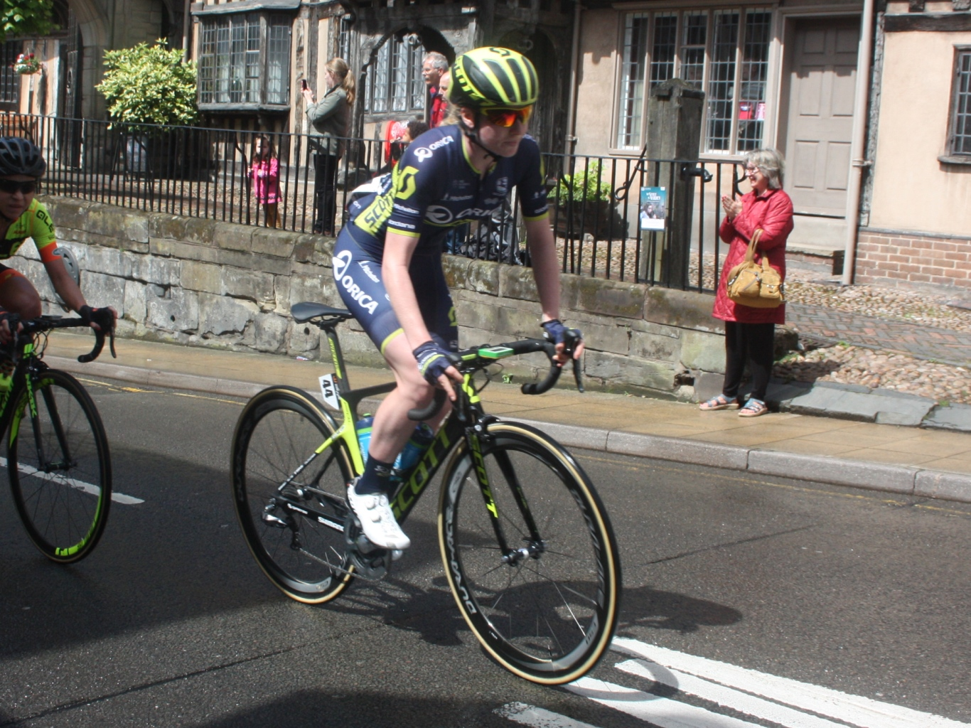 Alexandra Manly of the Orica-Scott team leads the 2017 Women's Tour past Lord Leycester's Hospital in Warwick during stage 3 of the race.